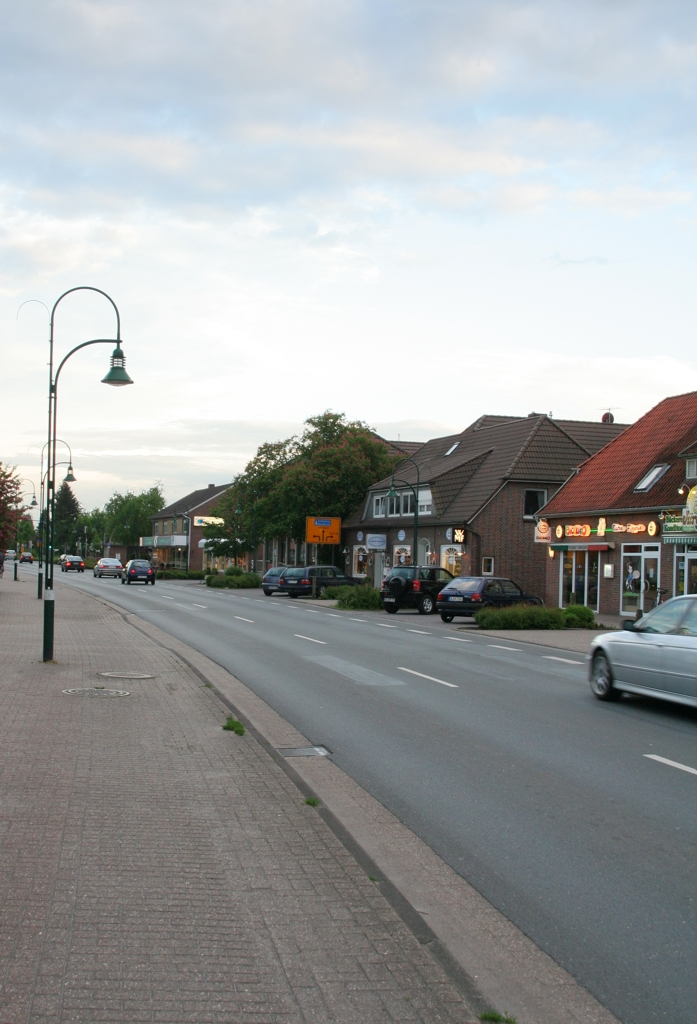 the city Wardenburg, Niedersachsen, Germany